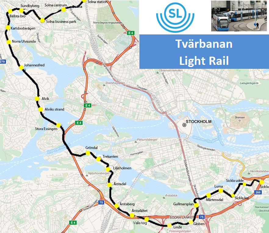 Map of Tvärbanan system, Stockholm